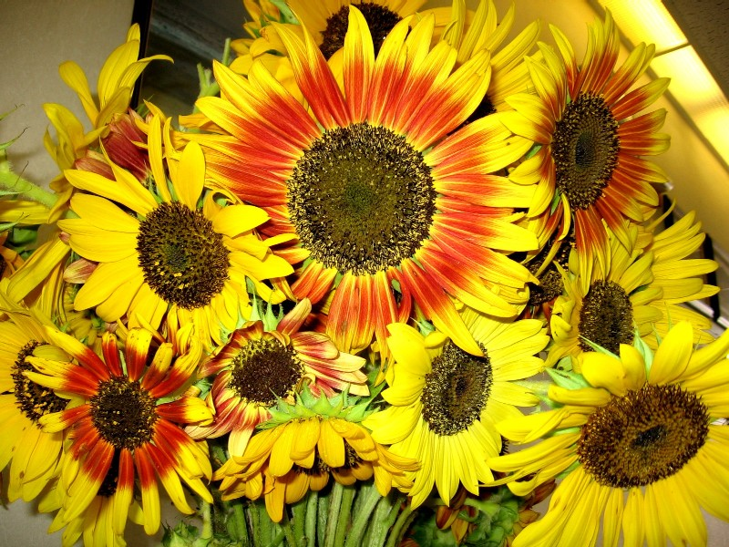 A floral arrangement in which red cultivars feature prominently